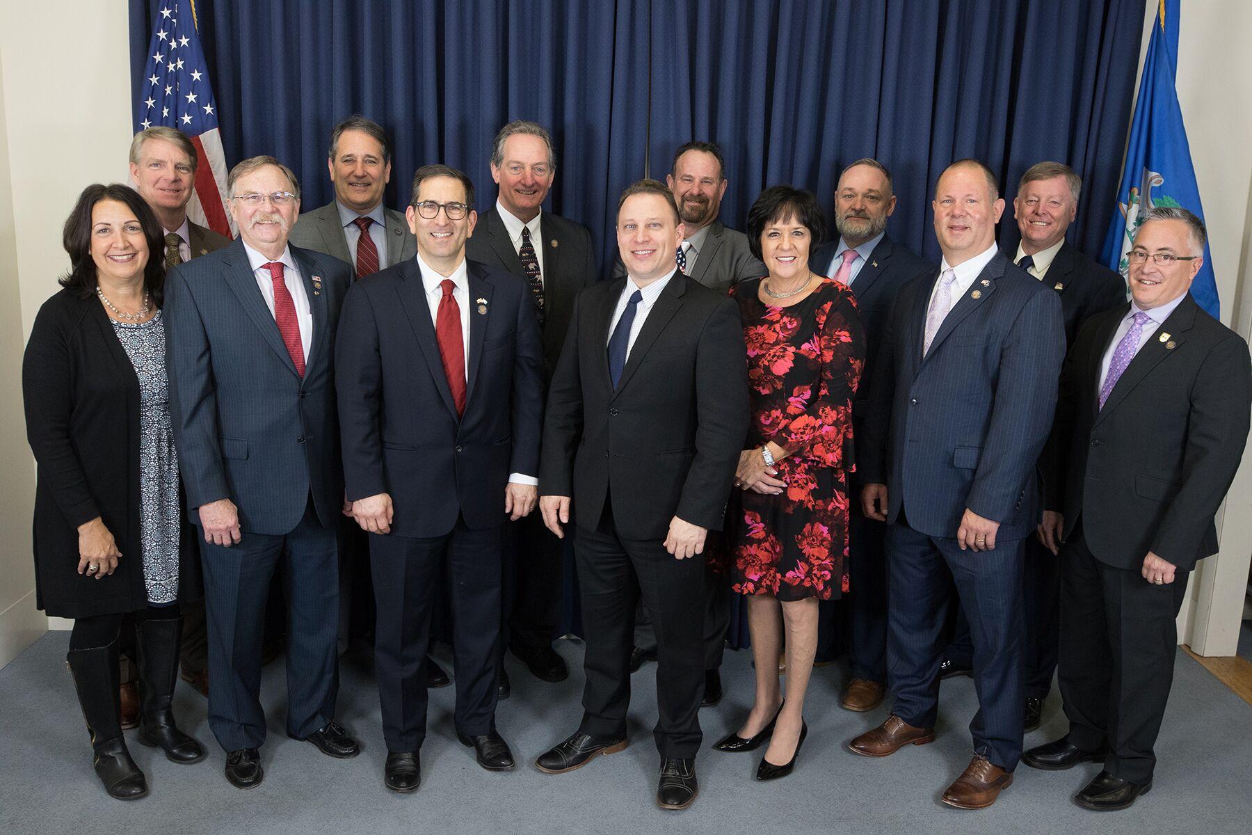 Member Photo of CT General Assembly Conservative Caucus, January 2019